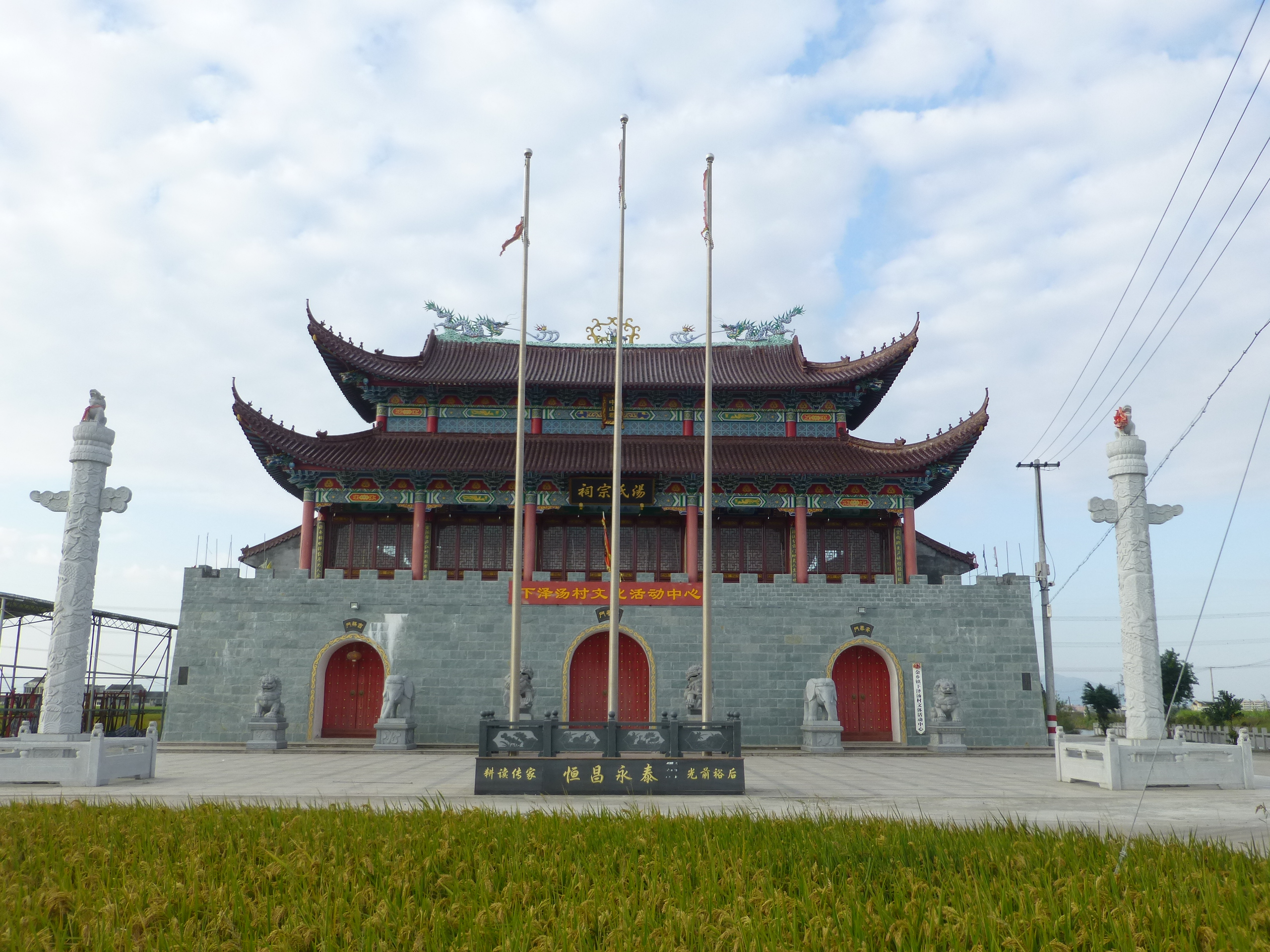 Xiazetang Village in Jinxiang Town, Cangnan County, Zhejiang, China. The family temple of the Tang 汤 family and the village cultural and recreational center